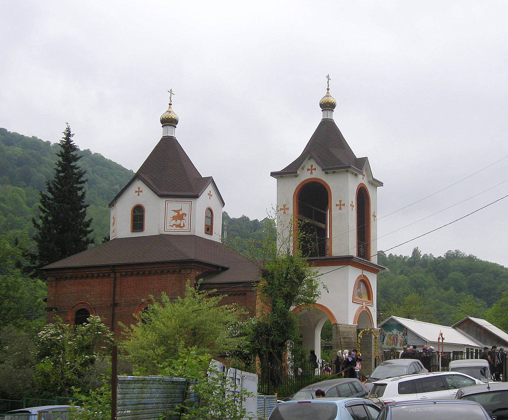 Greek Orthodox Church of St. George in Lesnoe village of Sochi